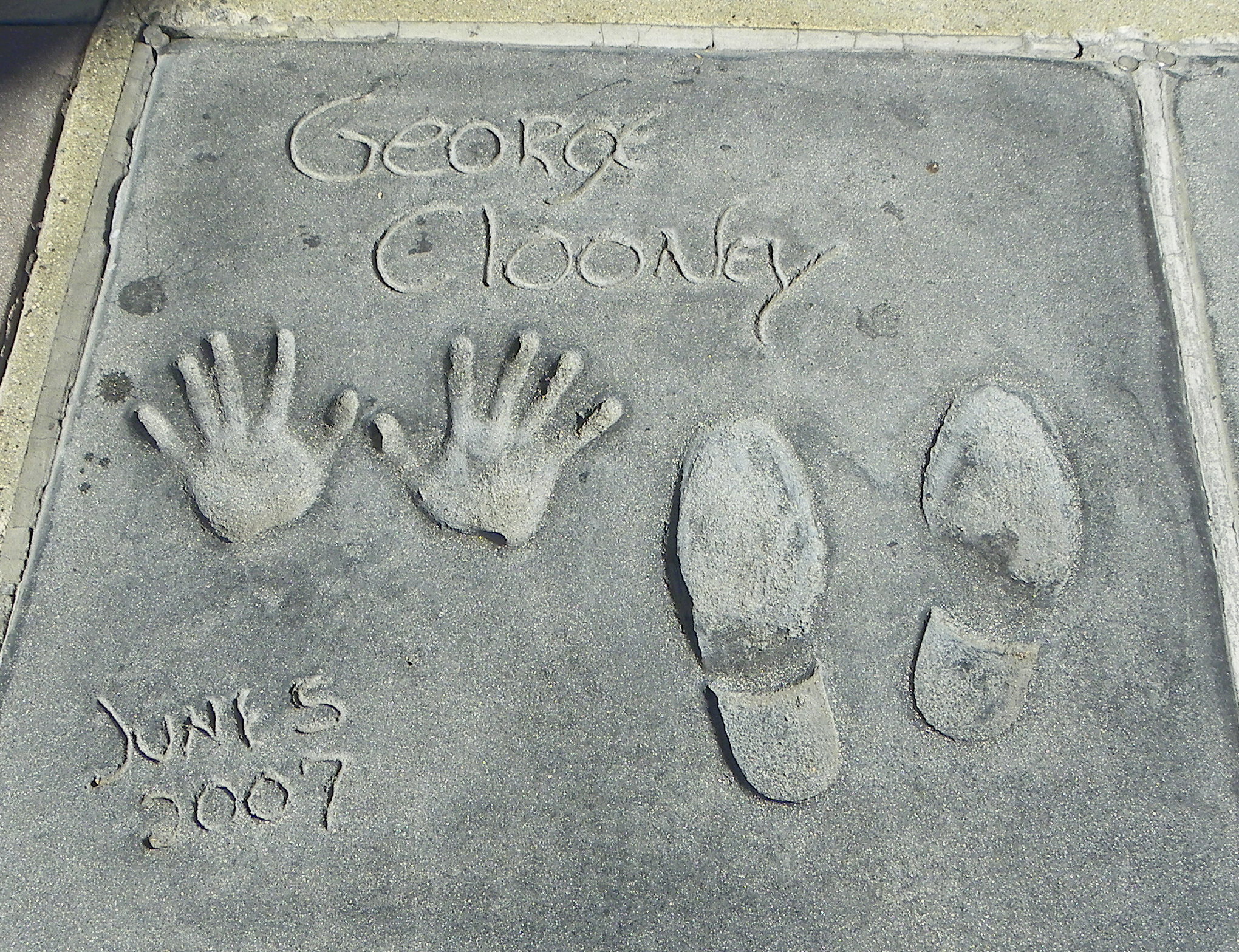 George Clooney's hand and footprints at Grauman's Chinese Theatre in Hollywood, Los Angeles, California.